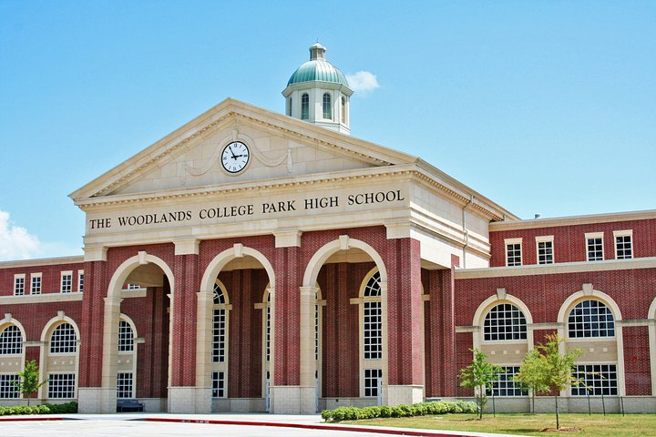 The front of the Woodlands College Park High School in The Woodlands, Texas.